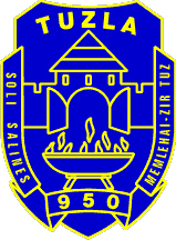 Tuzla coat of armor - Grb Tuzle